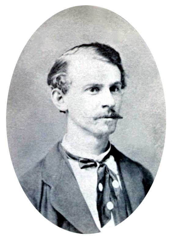 Portrait of Albert Parsons before the Haymarket Anarchists Trial, when he worked as a printer.